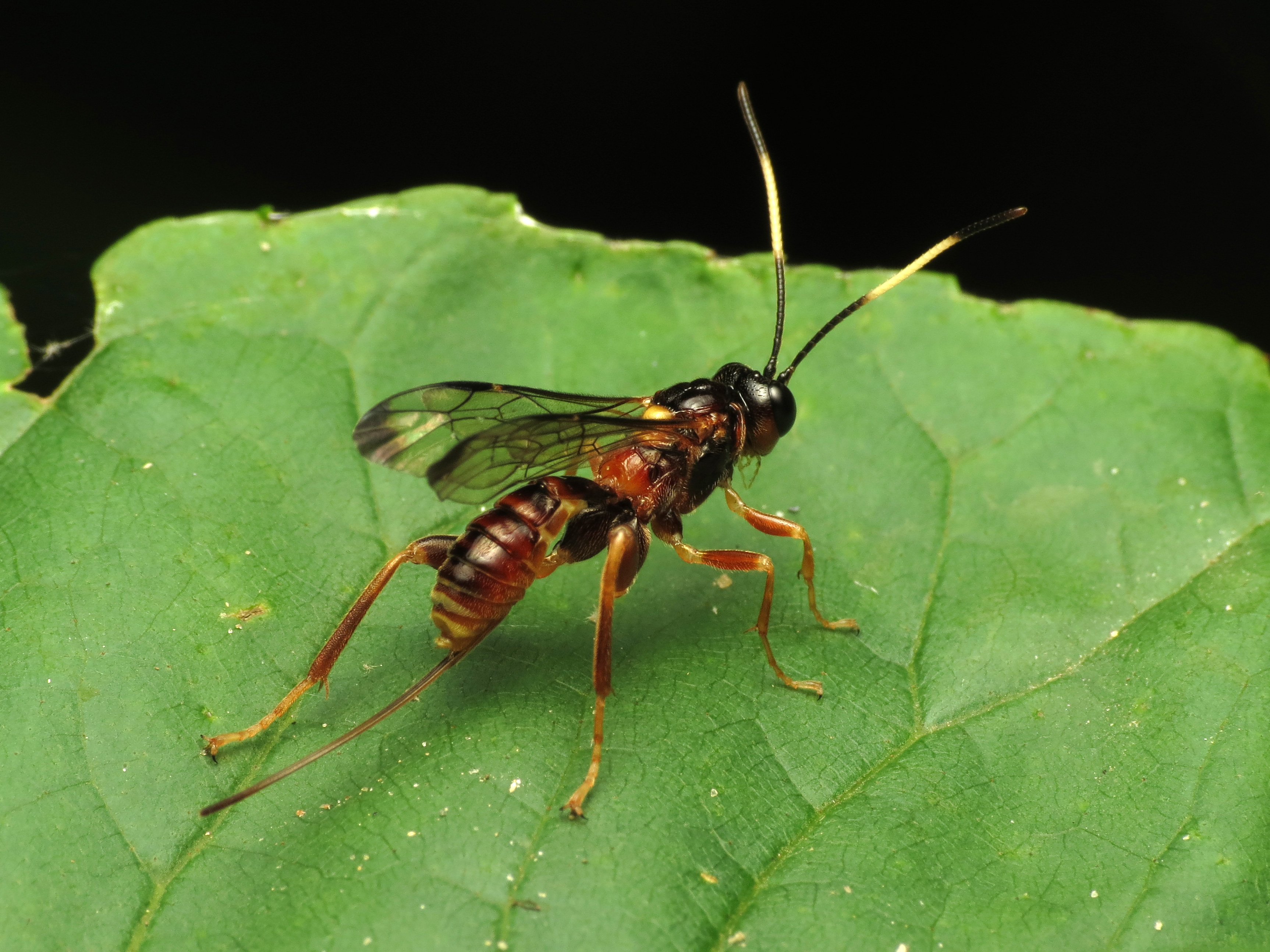 Ichneumonoidea sp. Rock Creek Park, Washington, DC, USA.